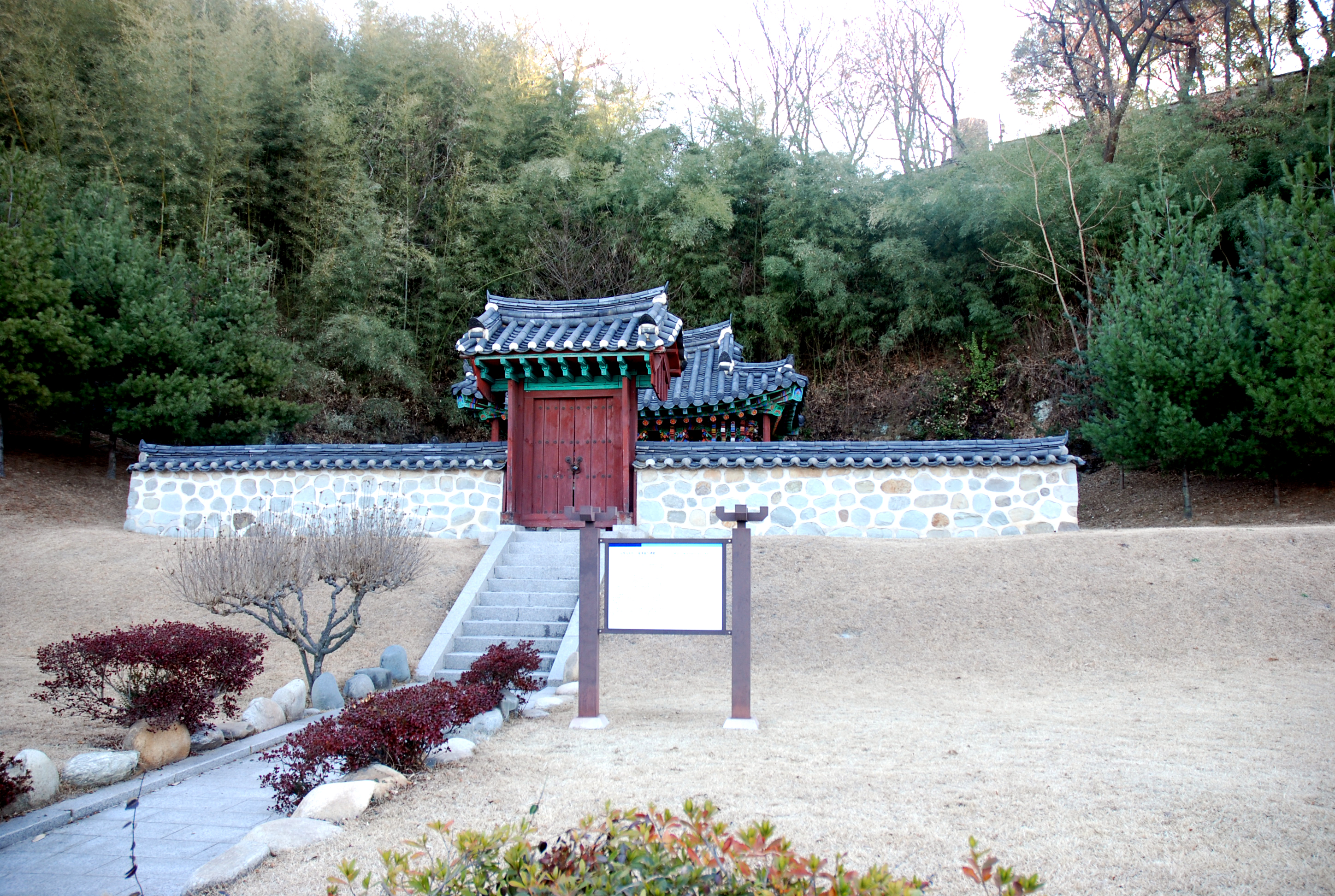 Monument pavillion of the Kims